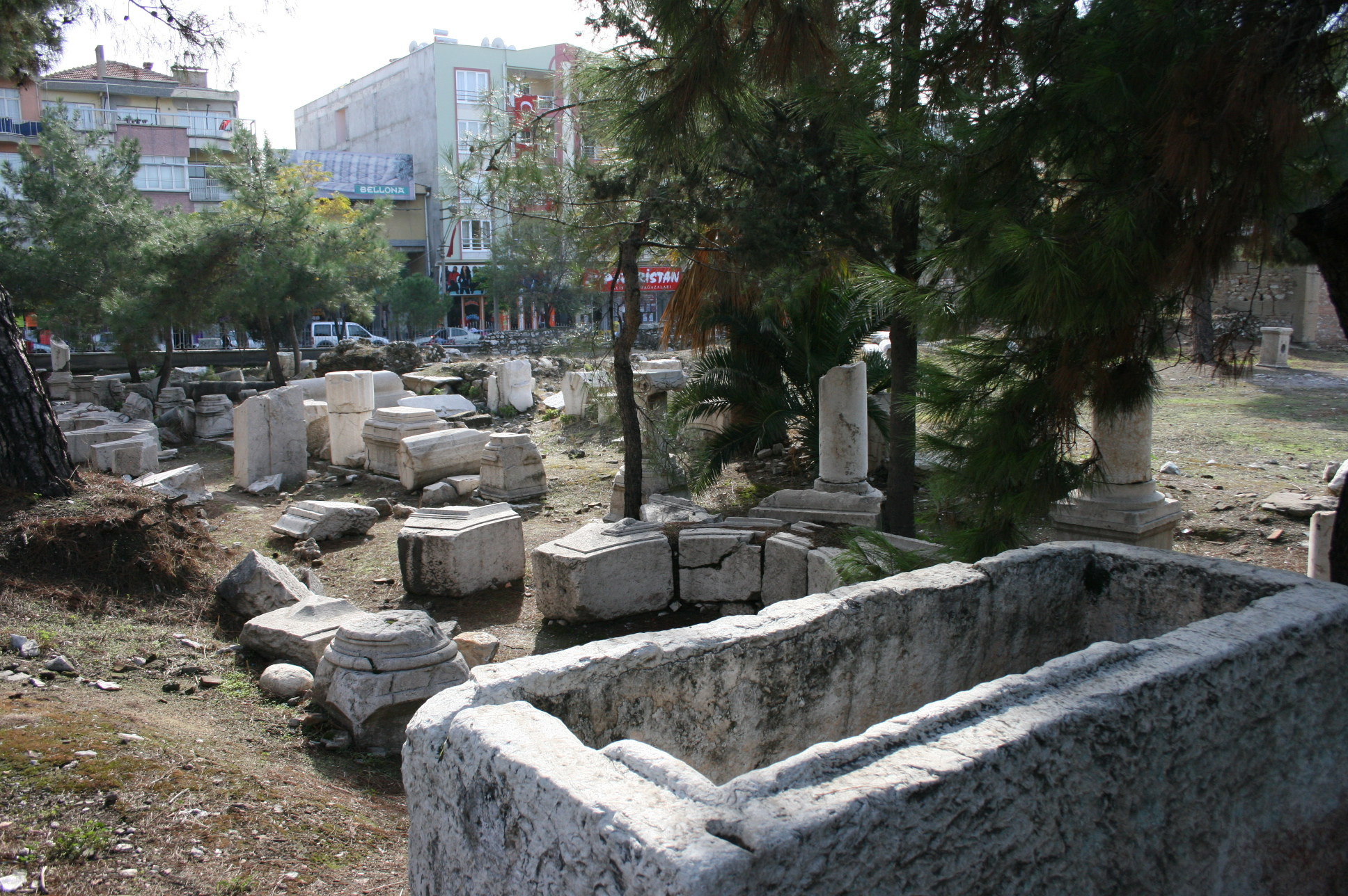 Ruins of Thyateira ancient city.